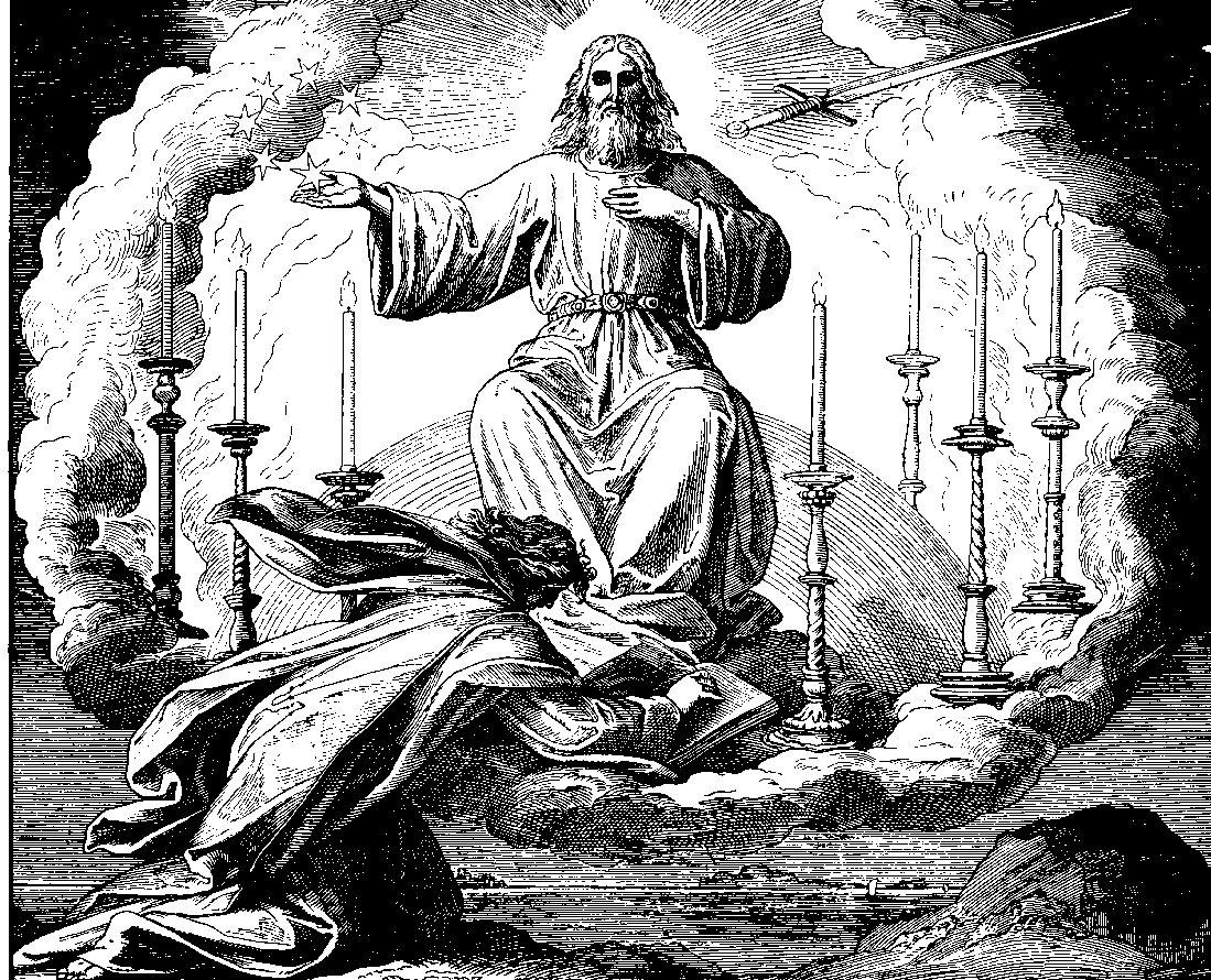 Woodcut for "Die Bibel in Bildern", 1860.